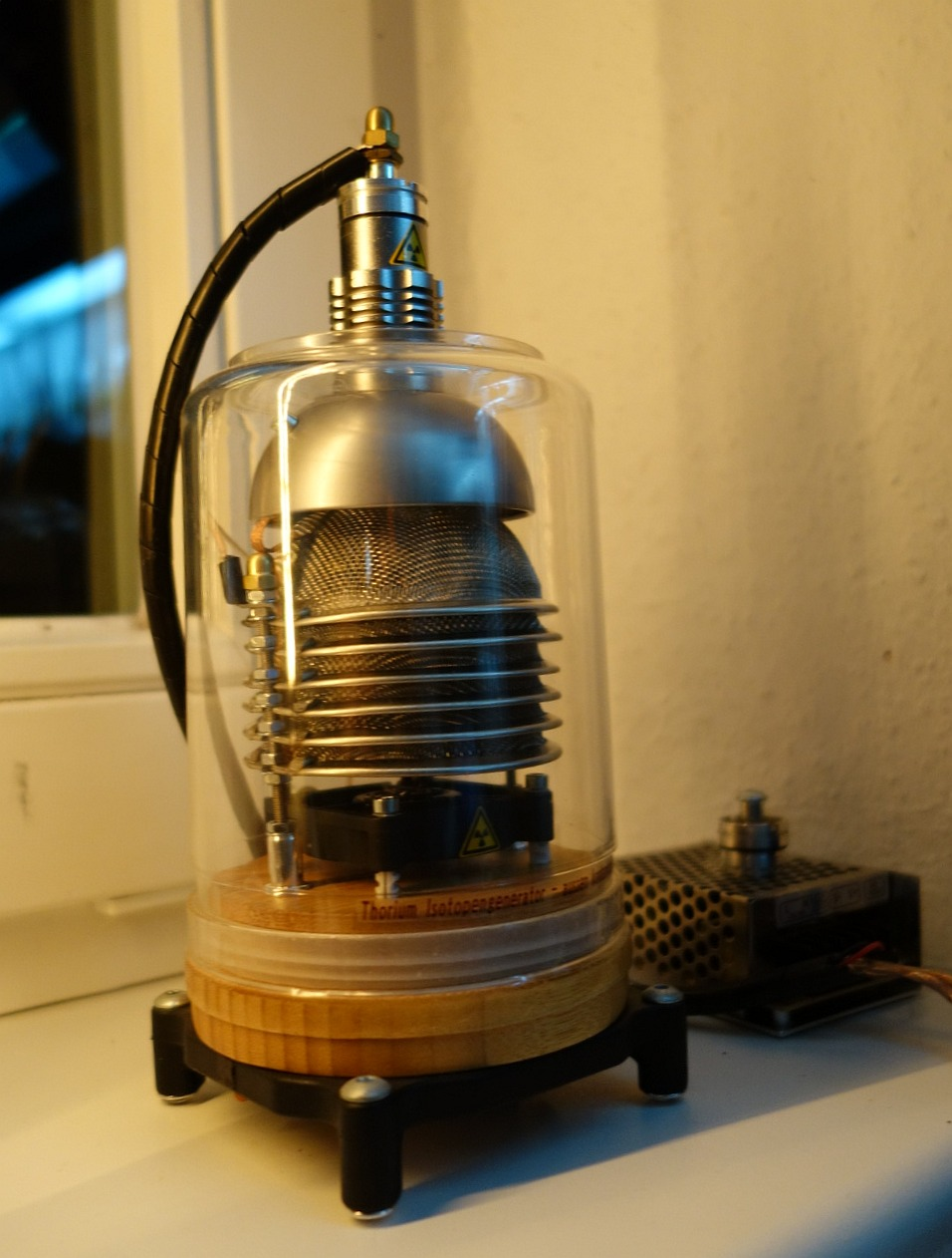 Thorium cow with HV electrodes, fan and probe hatch